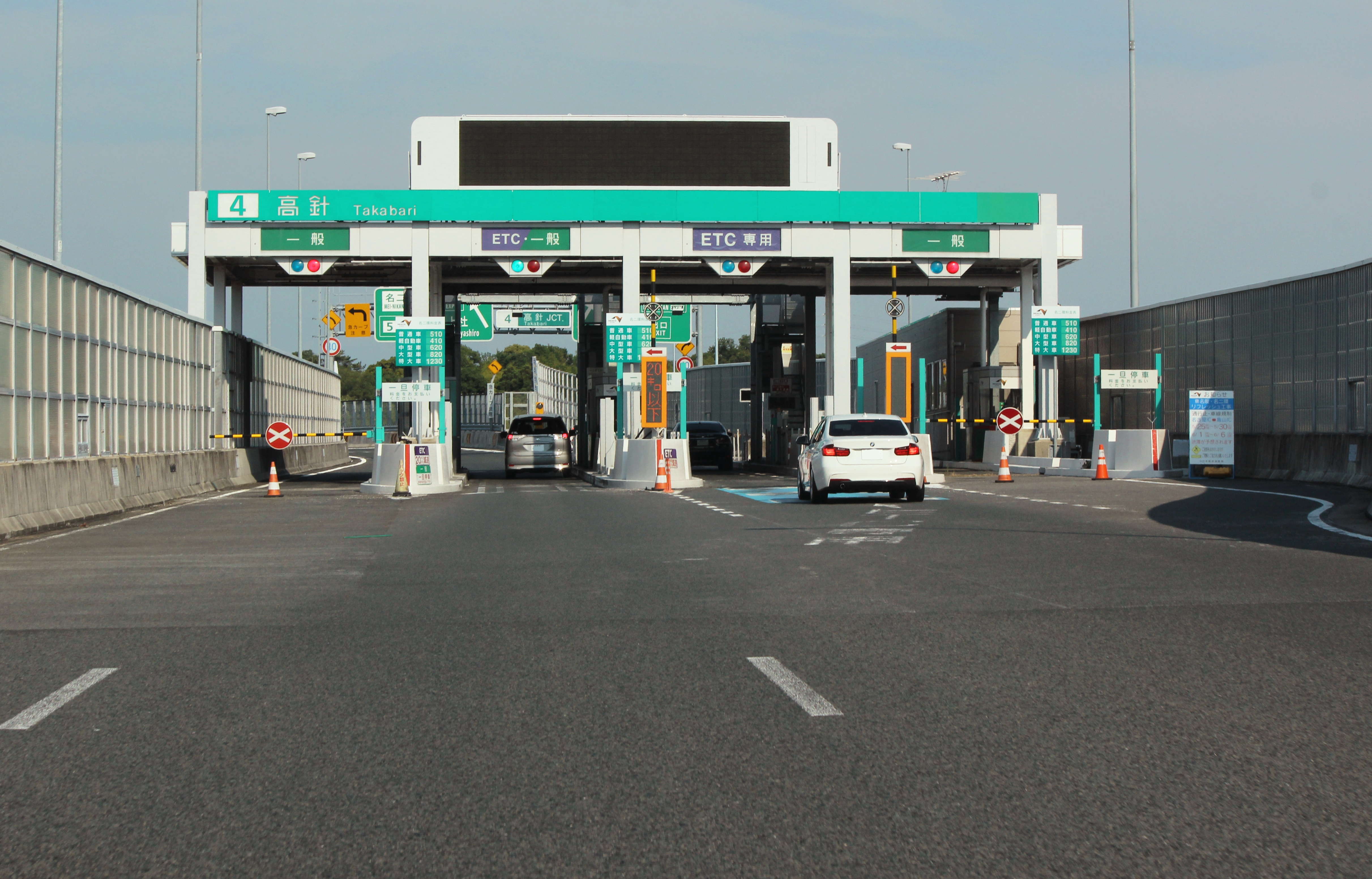 Toll gates at Takabari Junction on the Nagoya-Daini-Kanjo (Meinikan) and Nagoya Expressways